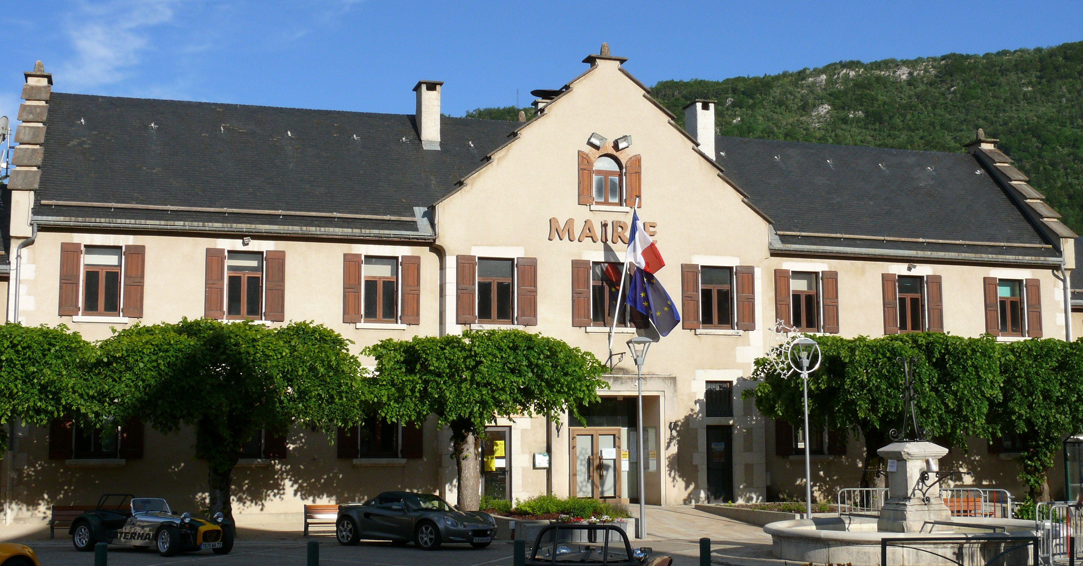 perfectly symmetrical one-storey building. The central body comprises three openings per floor, and each wing also includes three openings per floor. The roof in one piece, slate is steep. At each end there is a gable. exceeding the cover. Some stones are arranged on this gable.